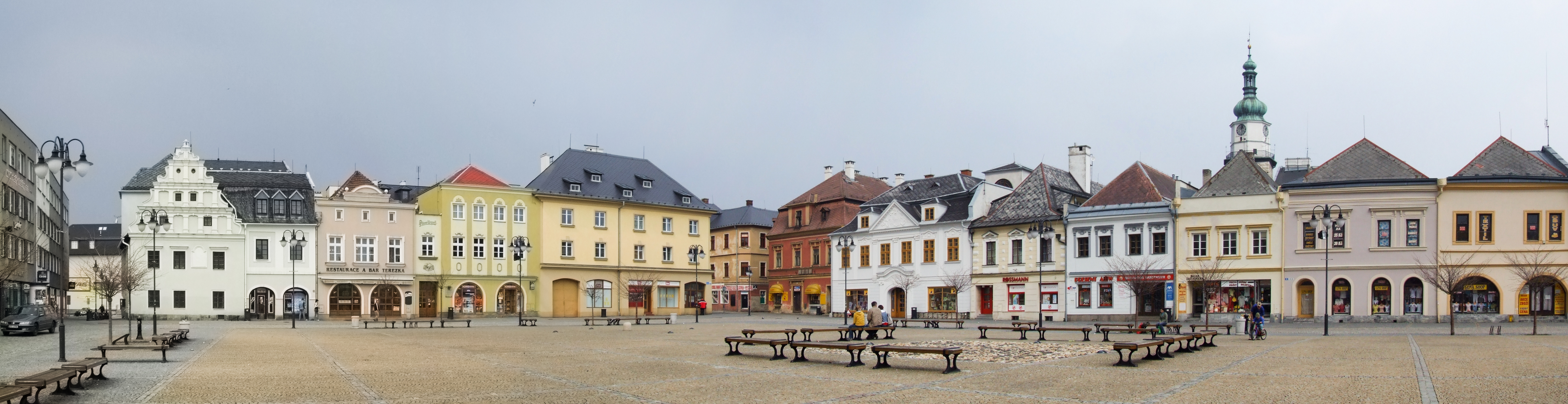 The náměstí Míru (Peace Square) in Bruntál (in